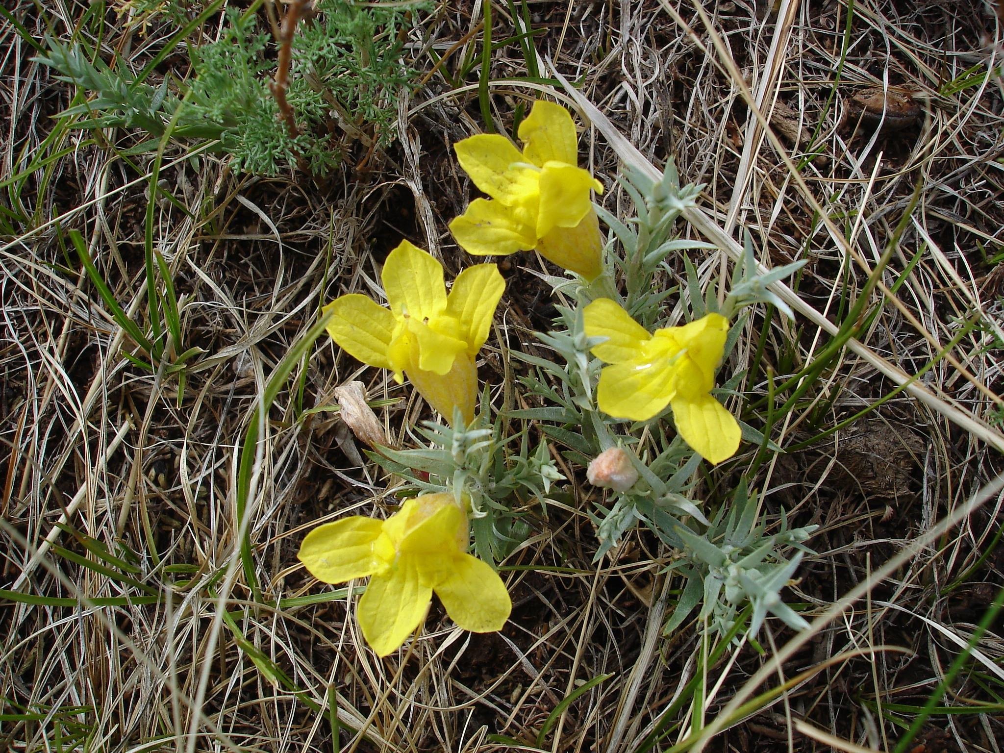 Cymbaria daurica L. (dahurica), planta of Scrophulariaceae. Terelj National Park, Mongolia.